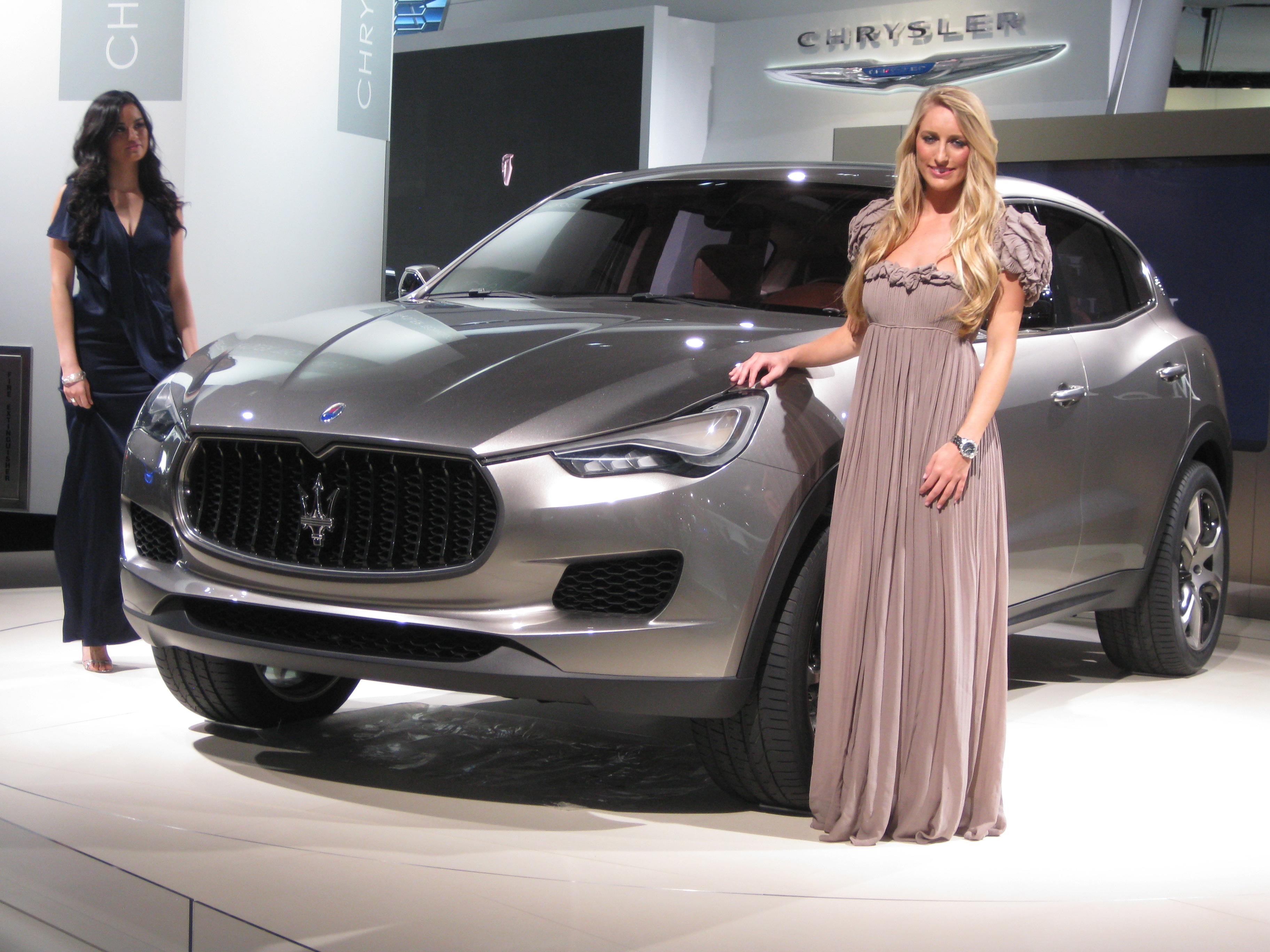 For more info and images please check